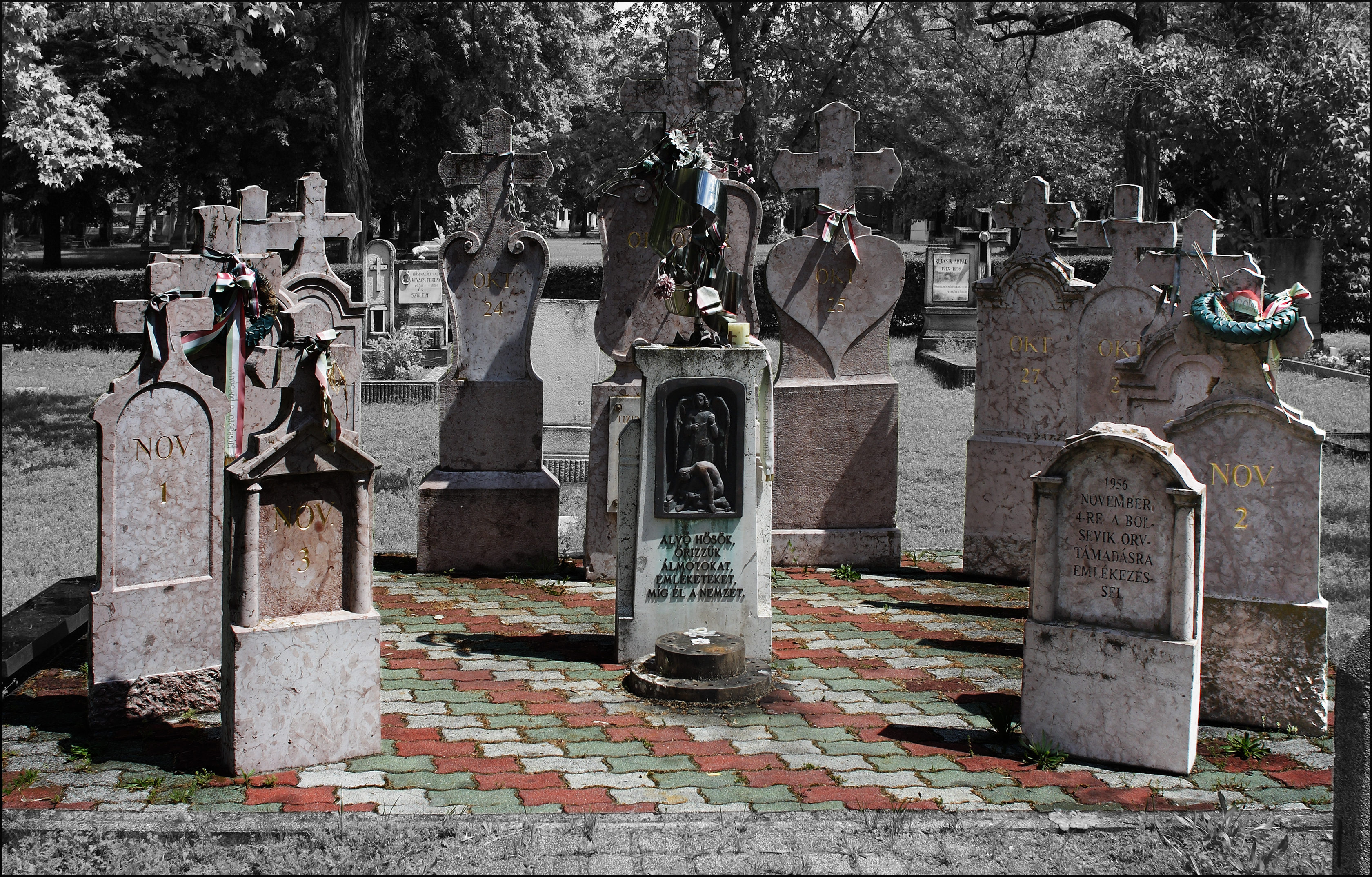 November 1956 insurgents, Kerepesi Cemetery (5/14 jn74)